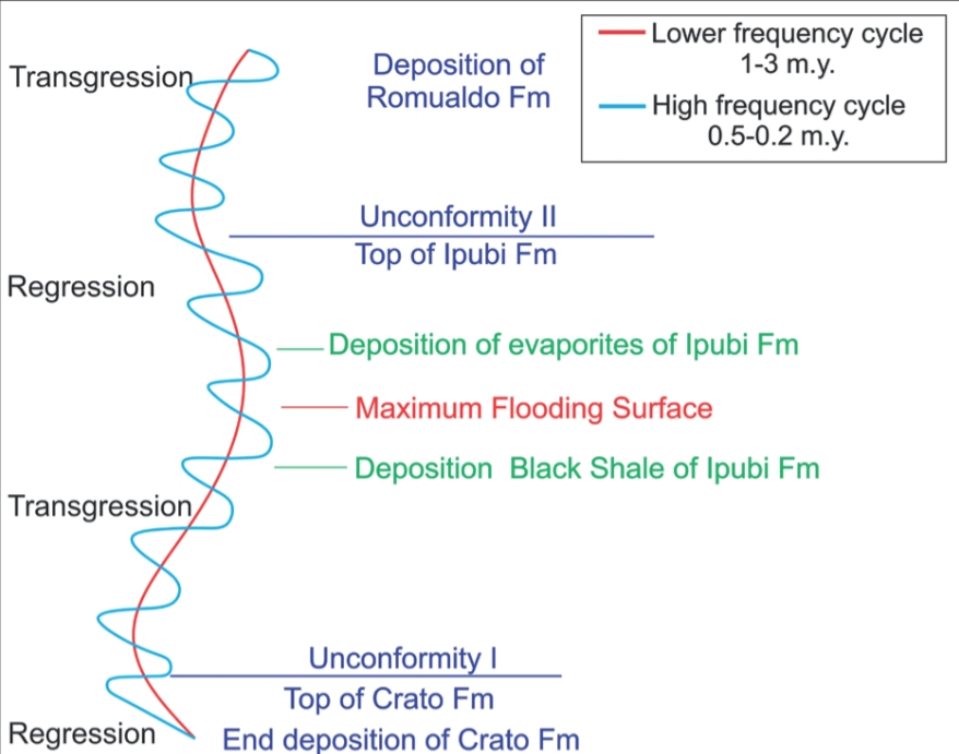 Cyclicity of the Santana Group in the Araripe Basin, NE Brazil